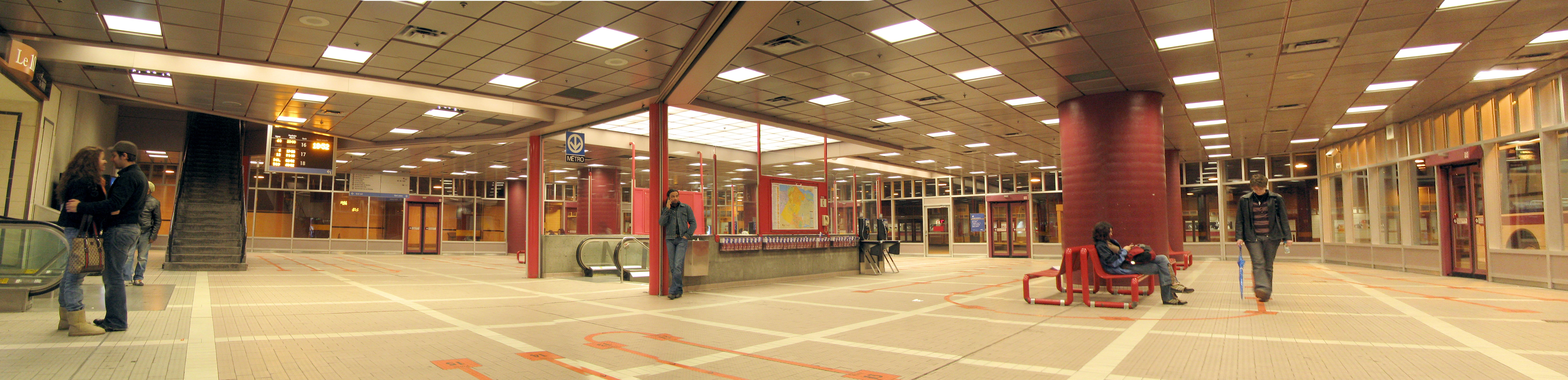 Terminus Centre-Ville panoramic view